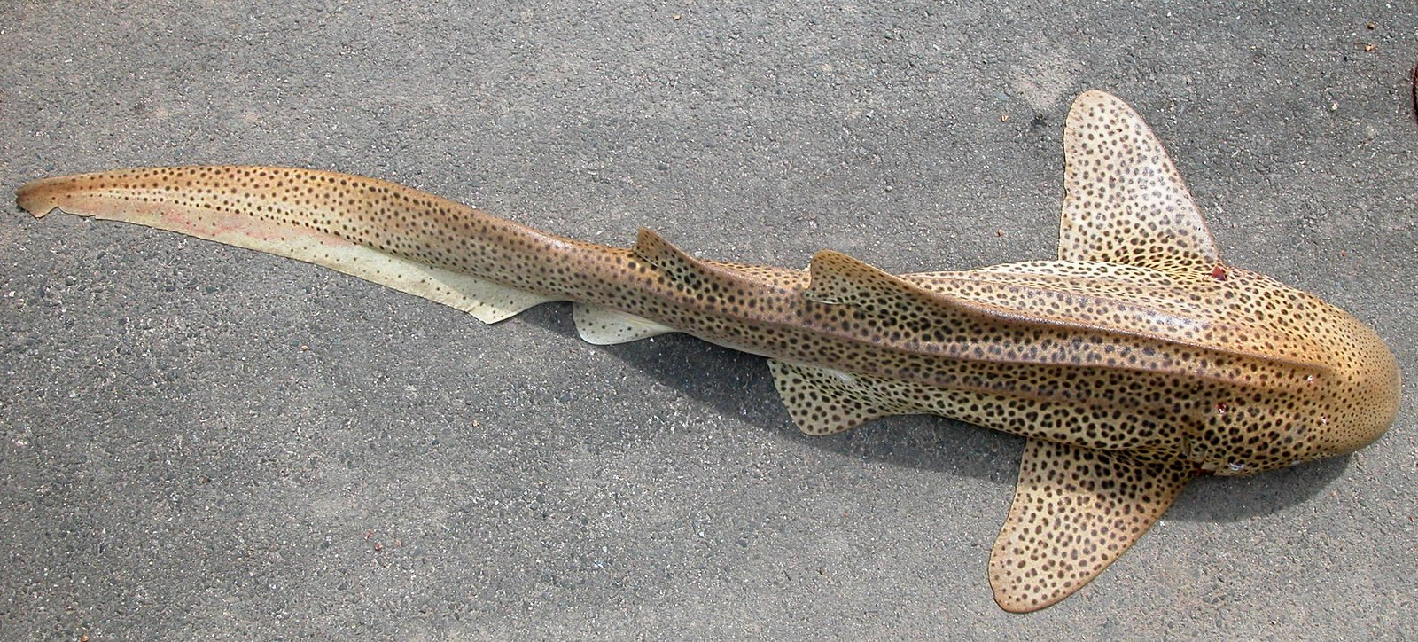 Stegostoma fasciatum. Body on ground, dorsal view. Locality: near Récif Aboré, off Nouméa, New Caledonia. Total Length 2,080 mm, Span 890 mm, Weight ca. 30-40 kg. Date 3 May 2005.